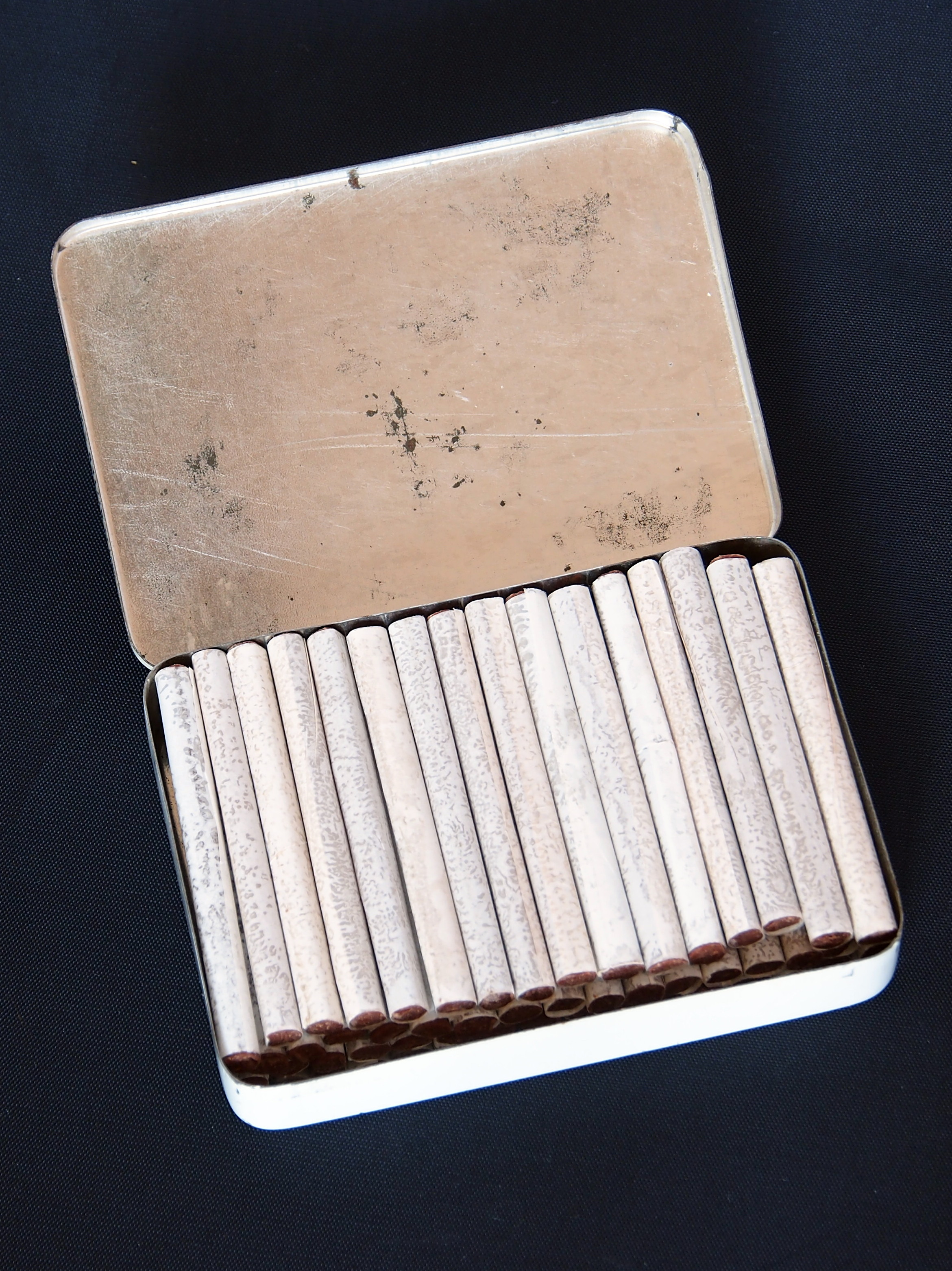 Photographed at a collector of Droste. For info see tincollectors.nl or